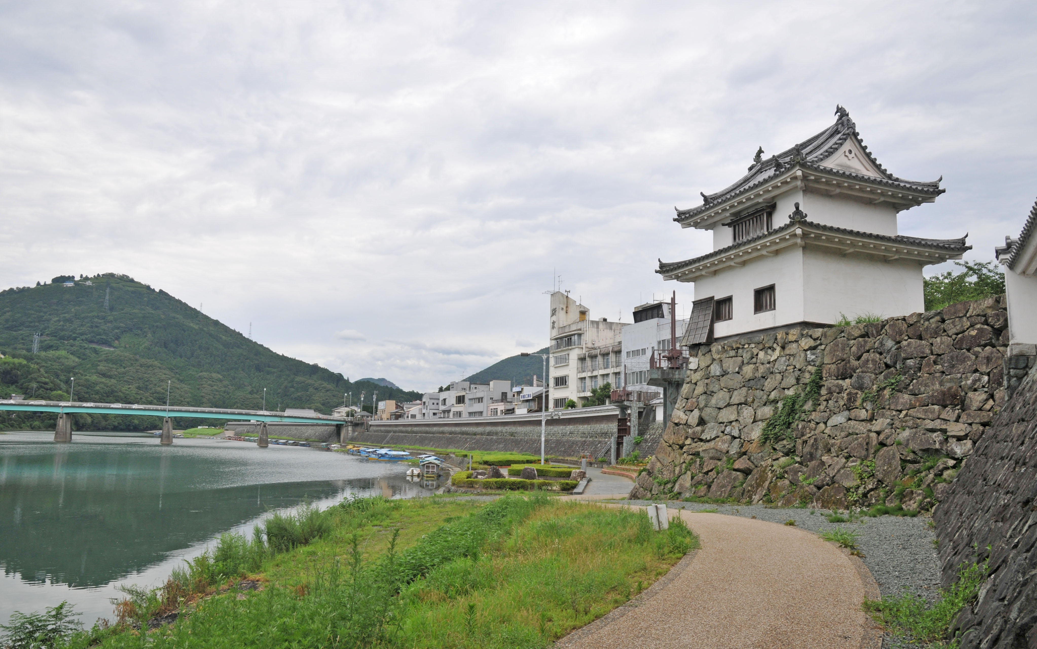 Ōzu castle Owata-yagura turret (Japan's national important cultural property), with Tomisu-yama mountain and Hiji-kawa river